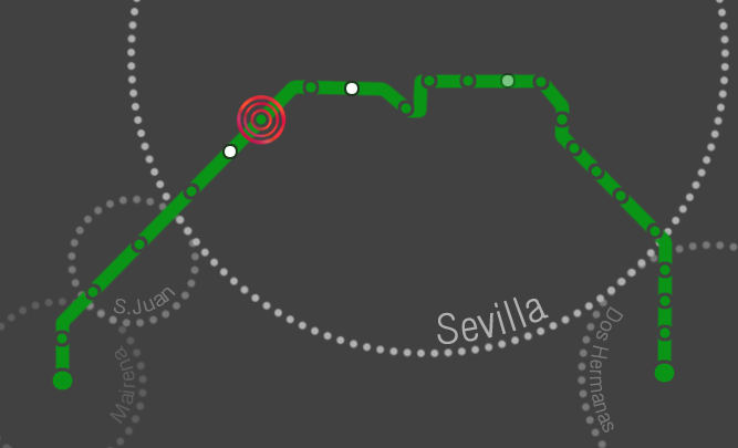 Location